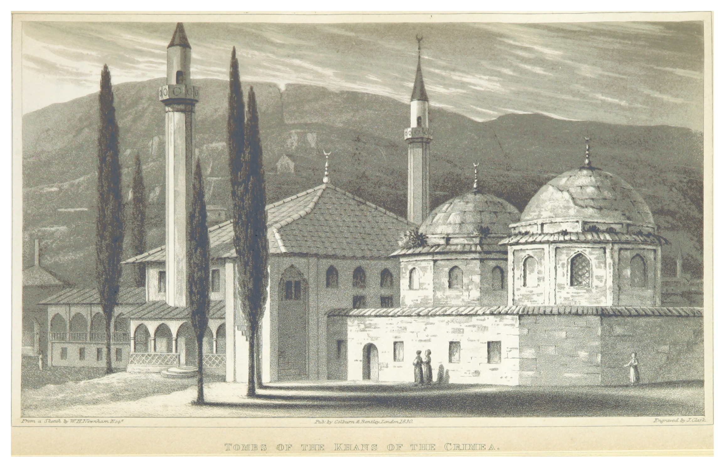 Bakhchisaray Palace and the Khans cemetery.